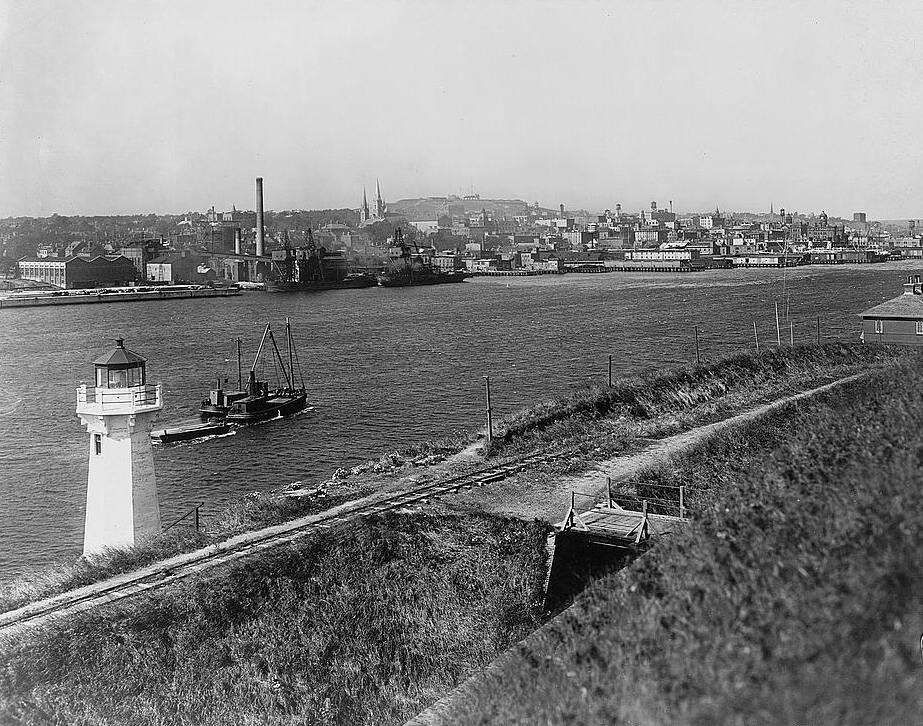 View of Halifax waterfront in 1917.